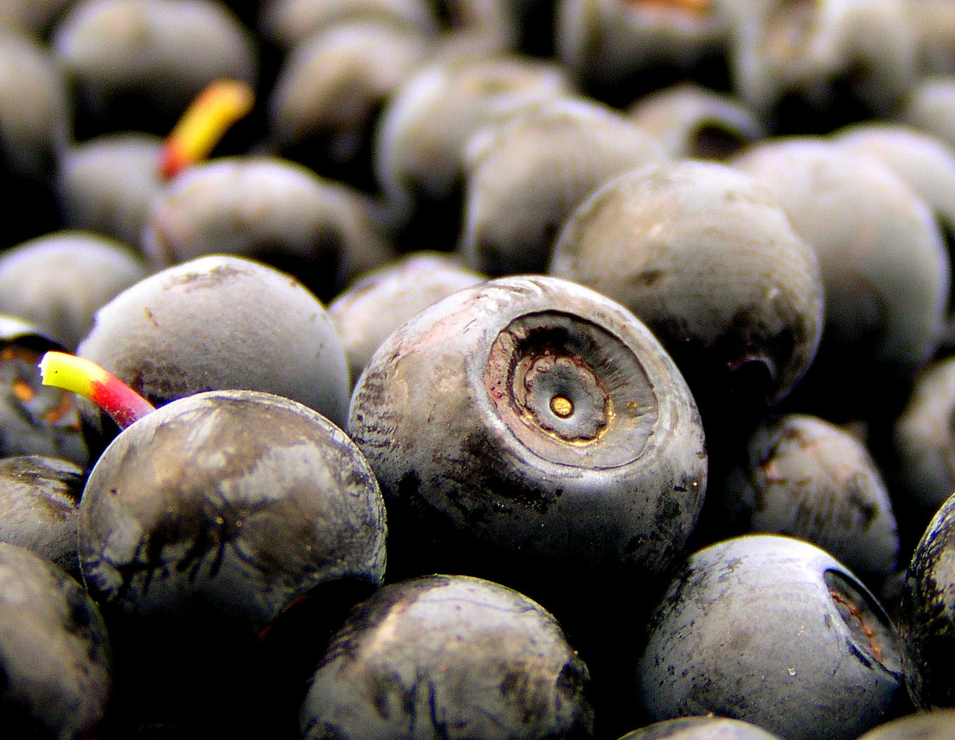 Blueberries collected in Norway.